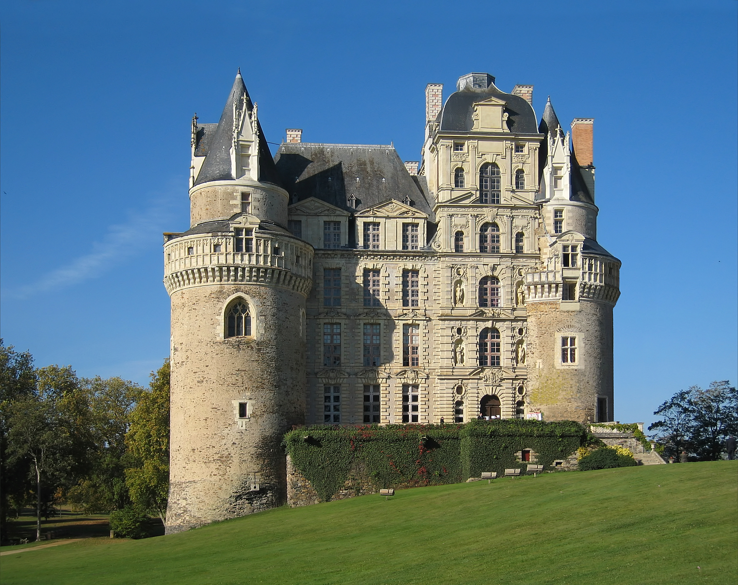 Castle Brissac, located in departement of Maine-et-Loire/France, eastern aspect (entrance).